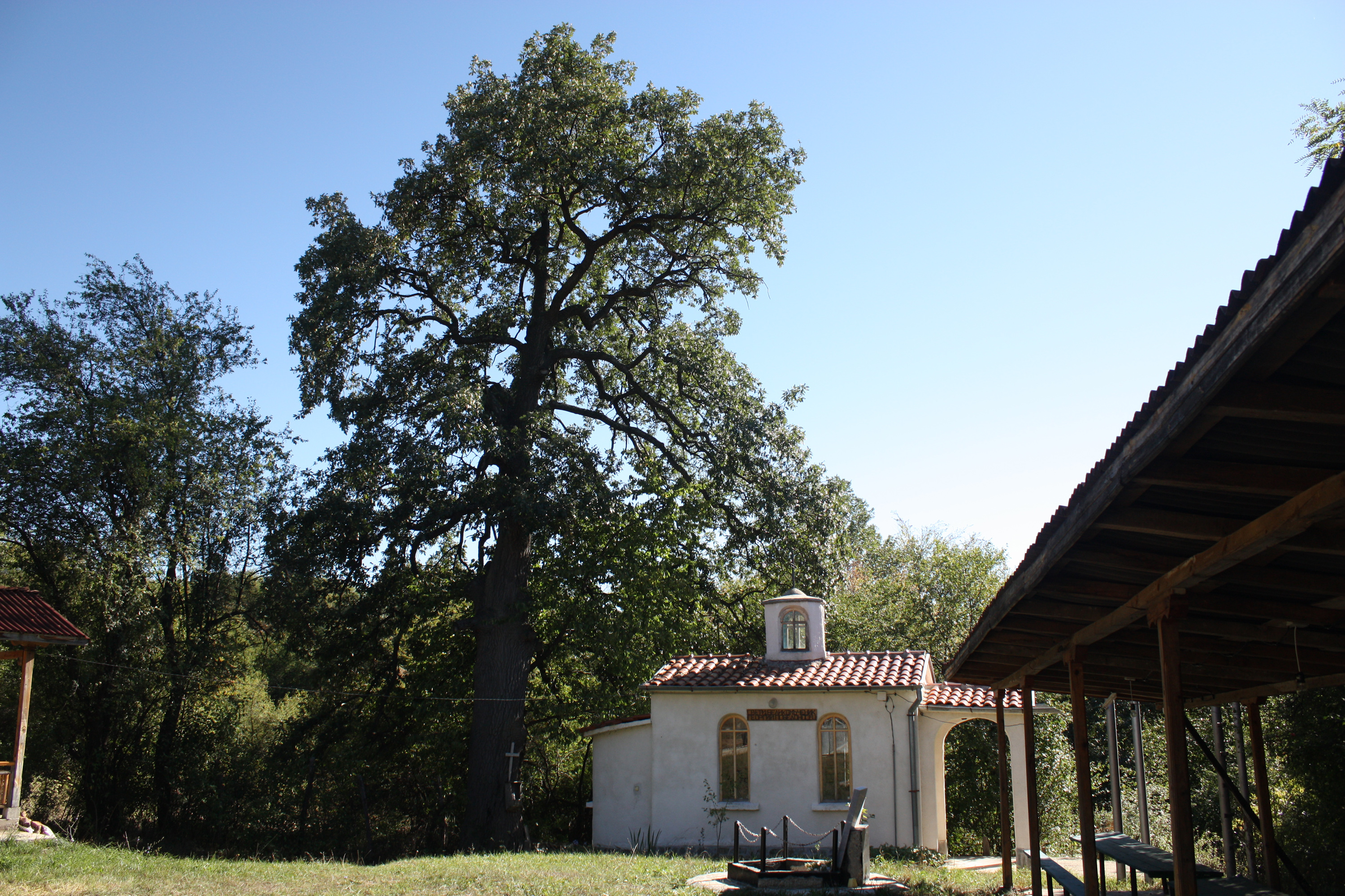 Buzyakovski Chapel "Saint George"